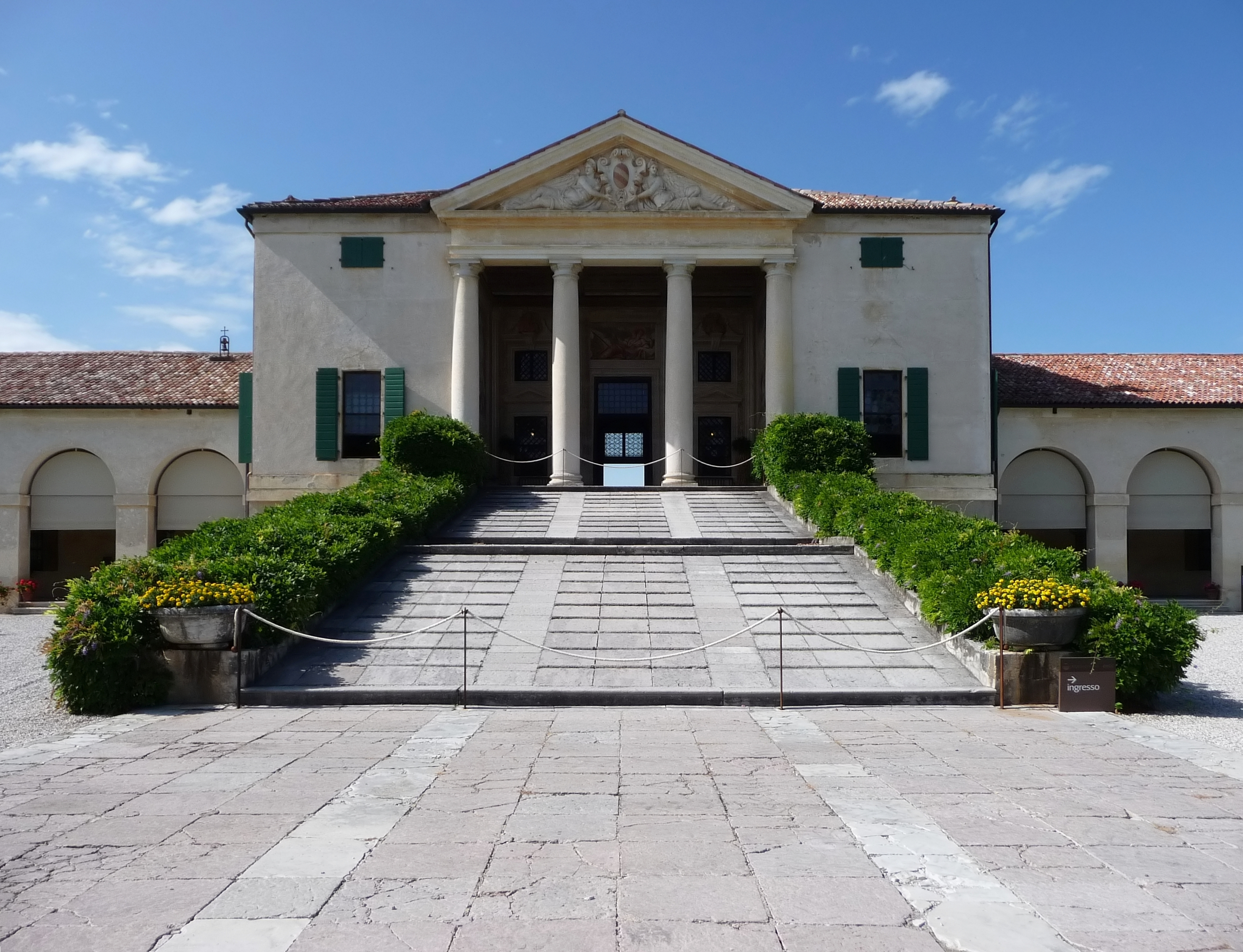 Villa Emo in Fanzolo di Vedelago, province of Treviso, Italy, designed by Andrea Palladio about 1558.